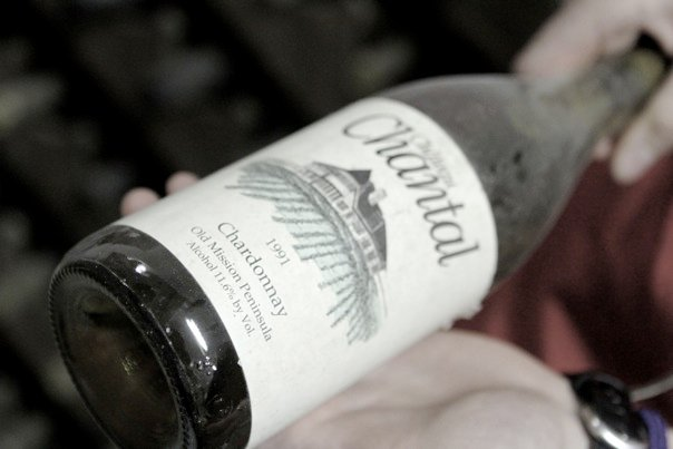 Wine for Chateau Chantal First harvest